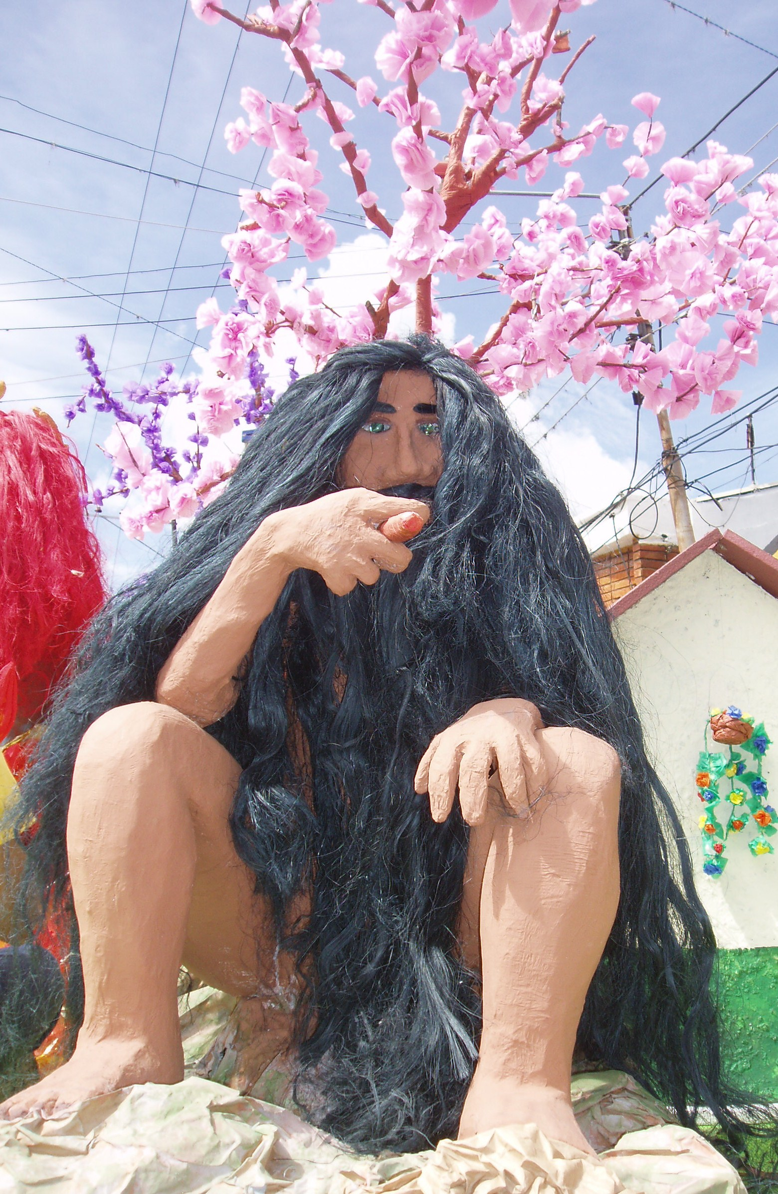 Mohan Pijao